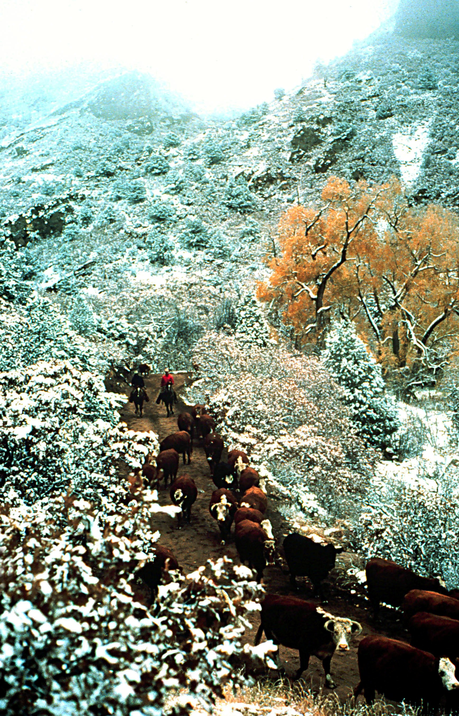 Ranchers use portions of the Gold Belt Tour Scenic and Historic Byway to move cattle in late fall to winter at lower elevations. Ranching continues to be an important part of the rural lifestyle in this region.